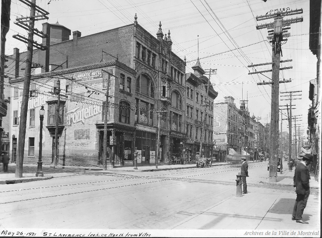 St-Lawrence Boulevard, Montreal, Quebec, Canada (1921) looking northward from the SE corner of Viger St. The Robillard Building is the second to the north on the west side from the NW corner